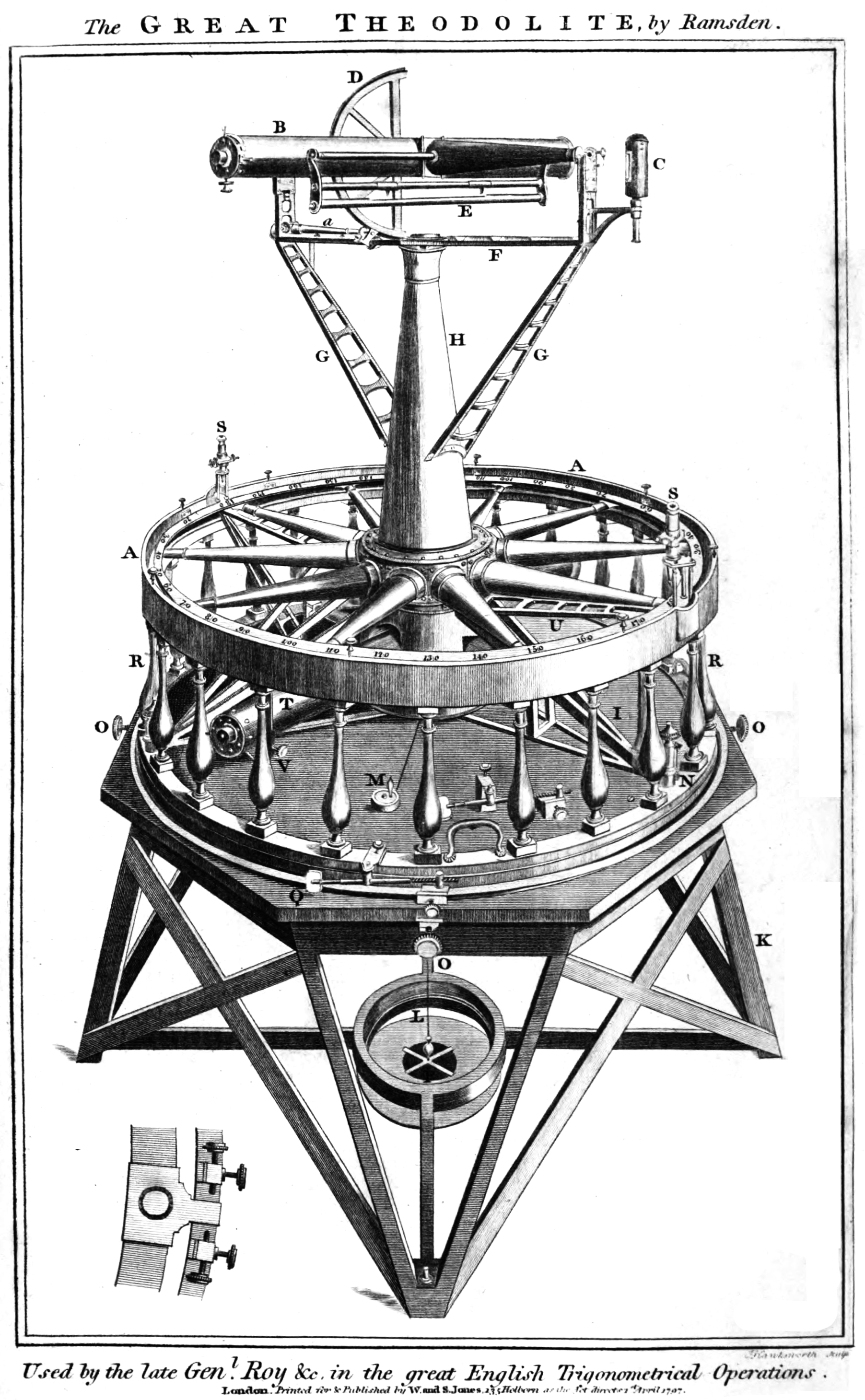 A Great Theodolite made by Jesse Ramsden, c. 1797